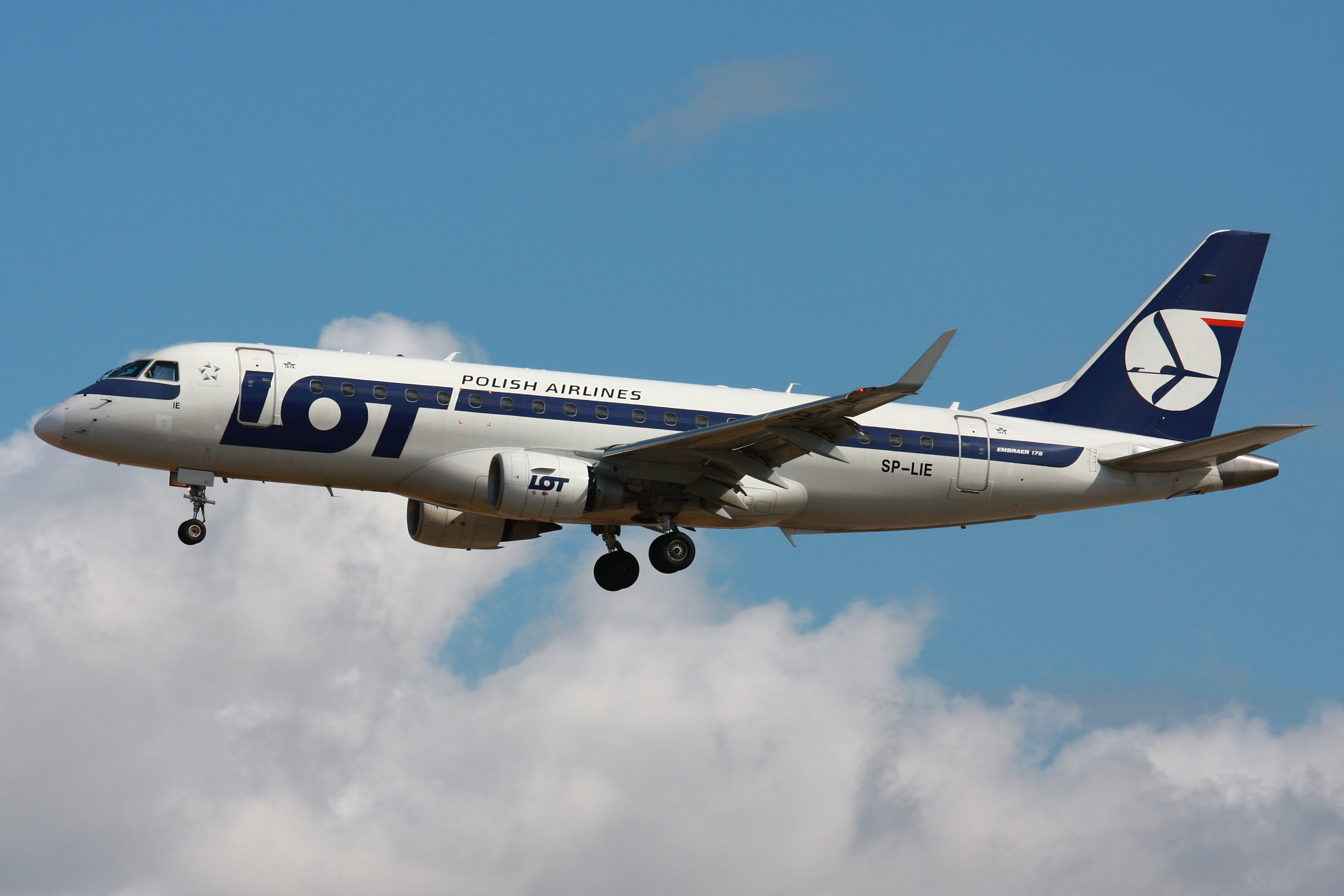 A Embraer 175 of LOT landing at Frankfurt Airport